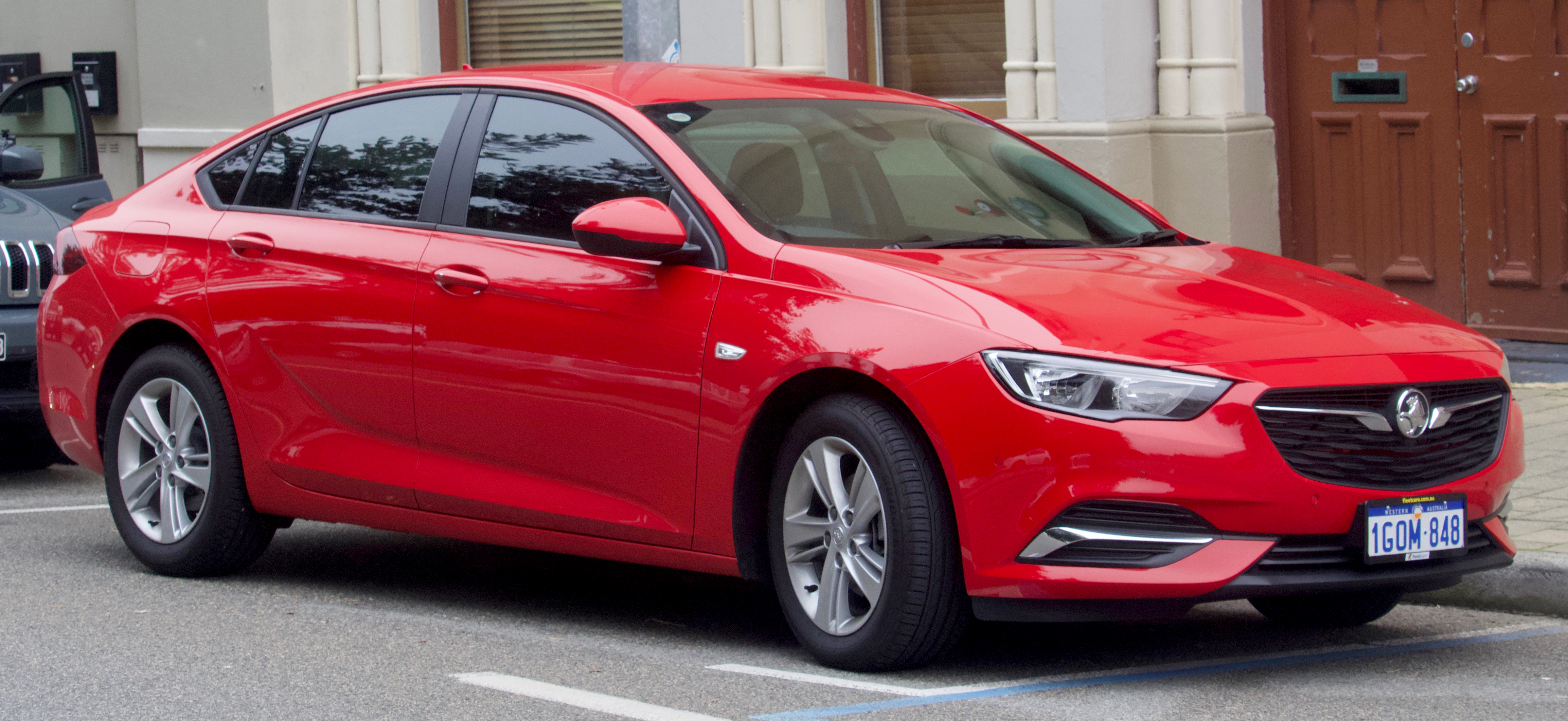 2018 Holden Commodore (ZB MY18) LT sedan. Photographed in Fremantle, Western Australia, Australia.